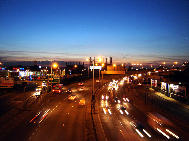 Angel Road, Edmonton, Enfield, London. 8 February 2006. Photographer: Fin Fahey